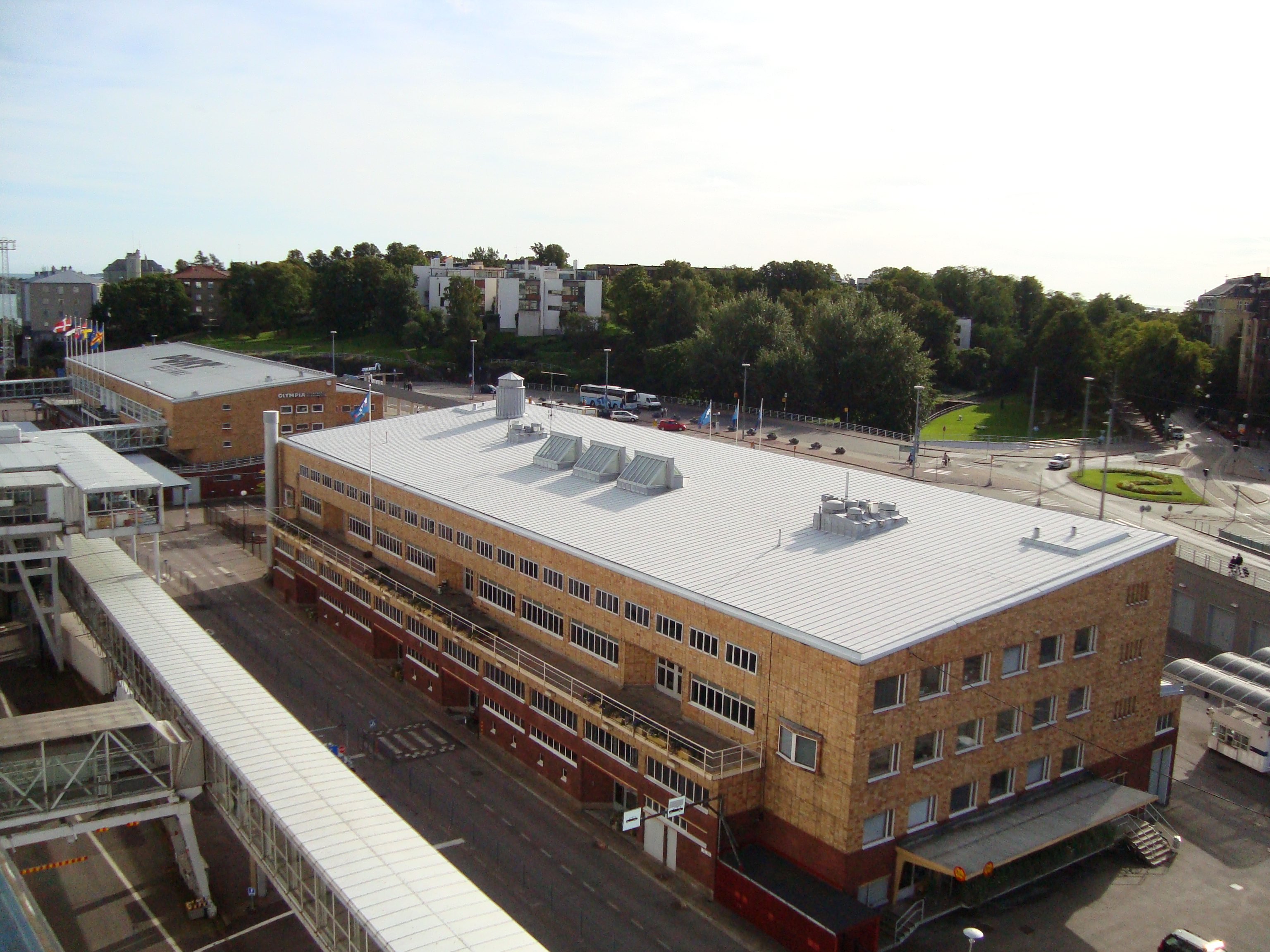 Ferryterminal Olympia, Helsinki. Passenger terminal at the left.